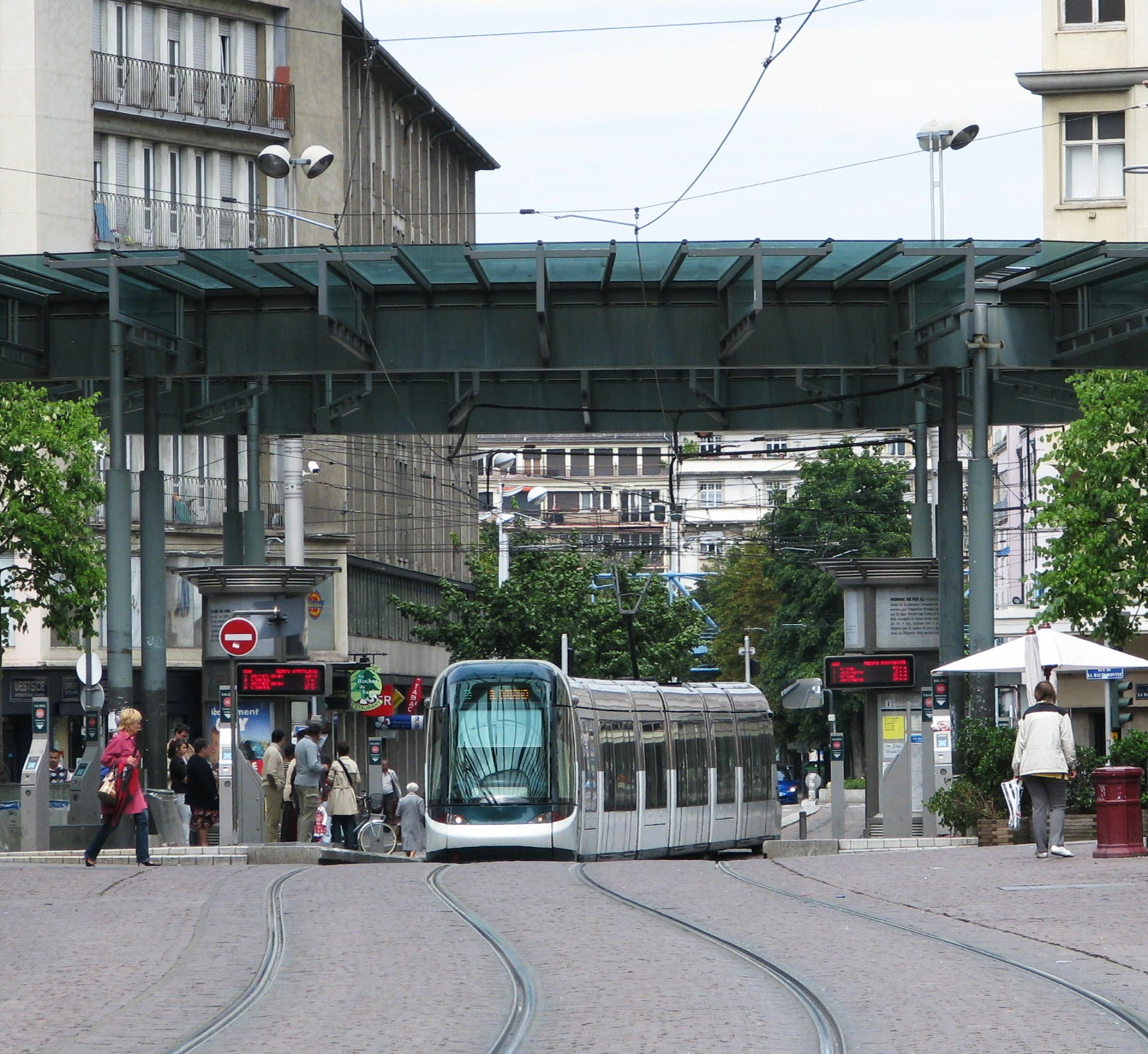 Tramways in Strasbourg